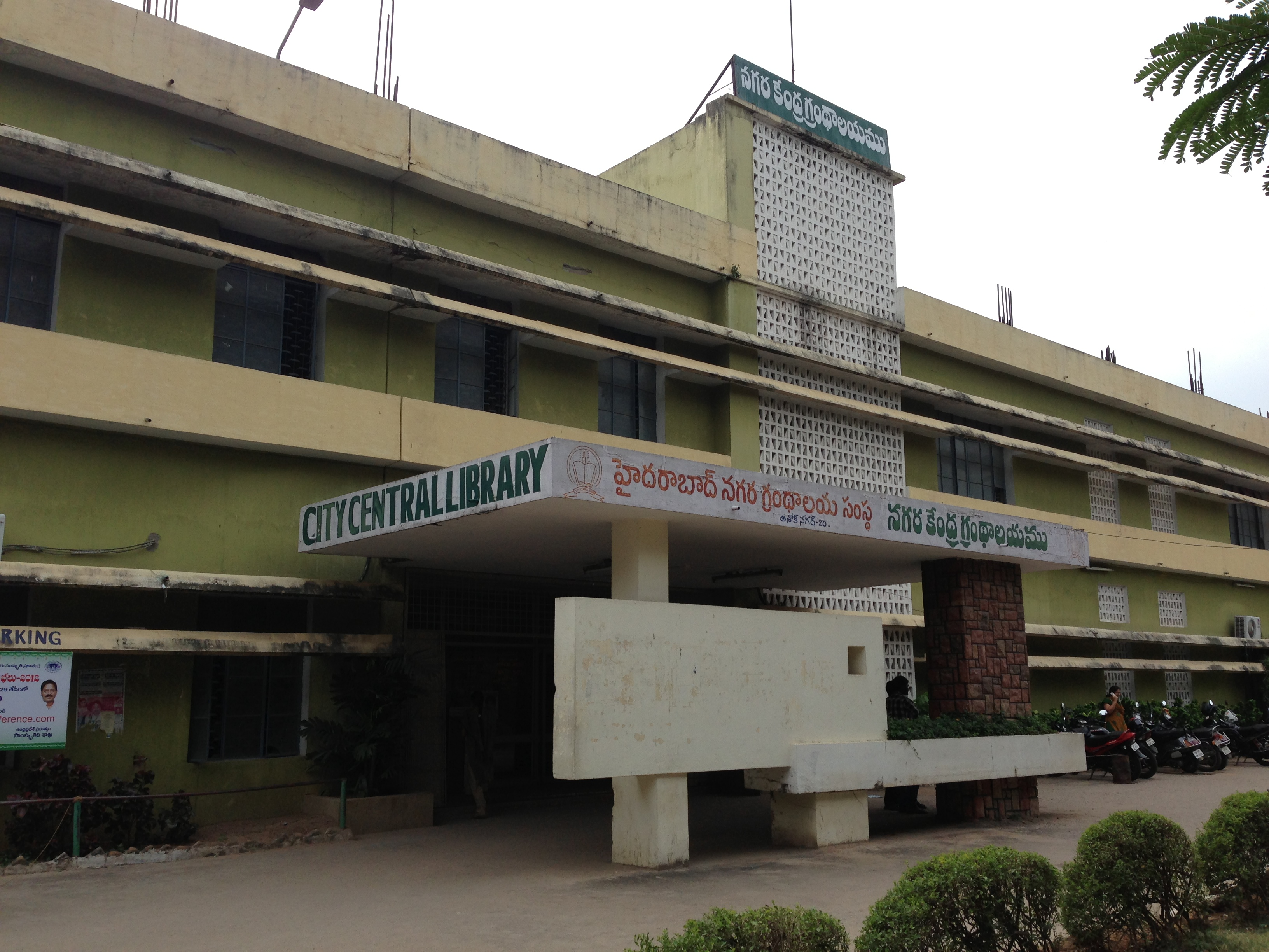 City Central Library, Ashok Nagar, Hyderabad, India